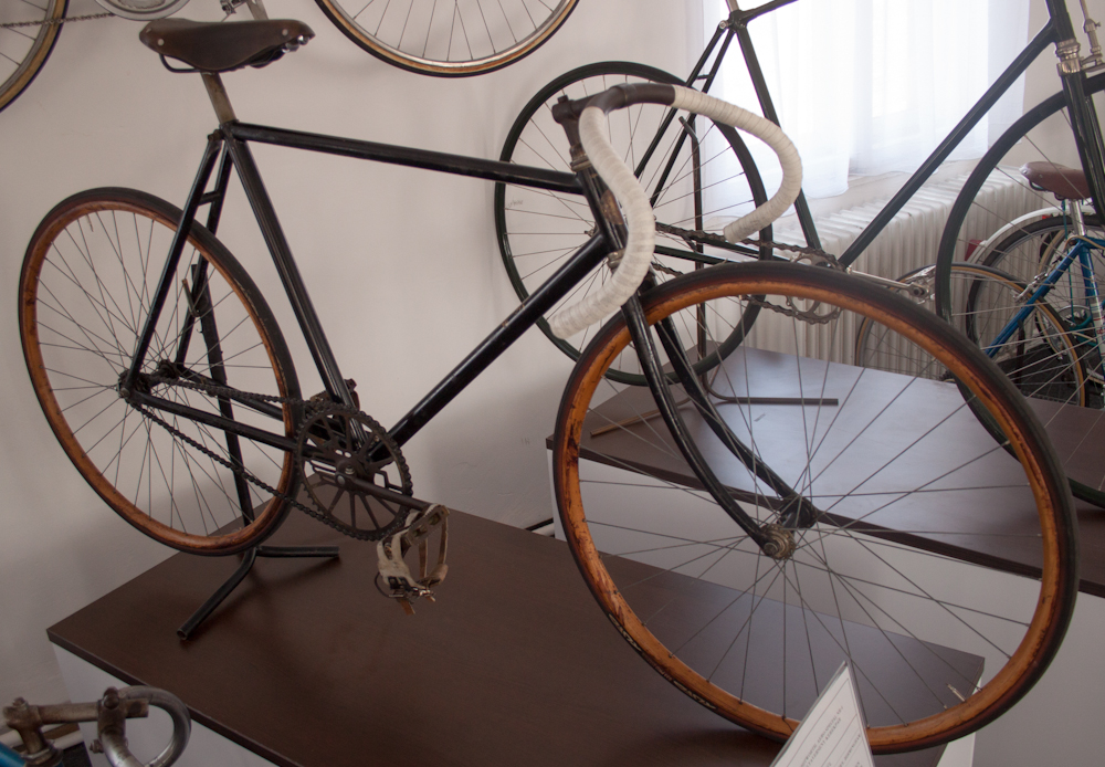 Aero_special,_track_bicycle, made by Budge-Whitwoprth, Coventry, Birmingham c 1910 - original, not reconstructedlabel QS:Len,"Aero_special,_track_bicycle, made by Budge-Whitwoprth, Coventry, Birmingham c 1910 - original, not reconstructed" label QS:Lhu,"Aero special márkájú pályaverseny-kerékpár, Budge-Whitwoprth, Coventry, Birmingham c 1910"